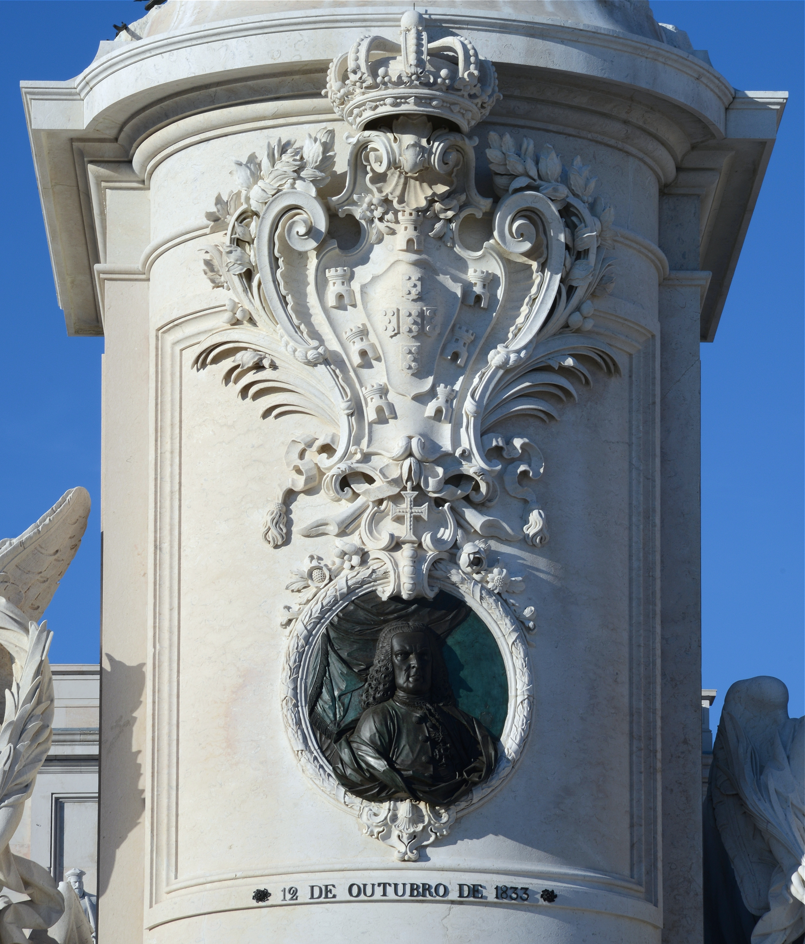 Detail of the monument to King José I of Portugal in Praça do Comércio, Lisboa. Arms of the King of Portugal and portrait of the Marquis of Pombal, minister of D. José.